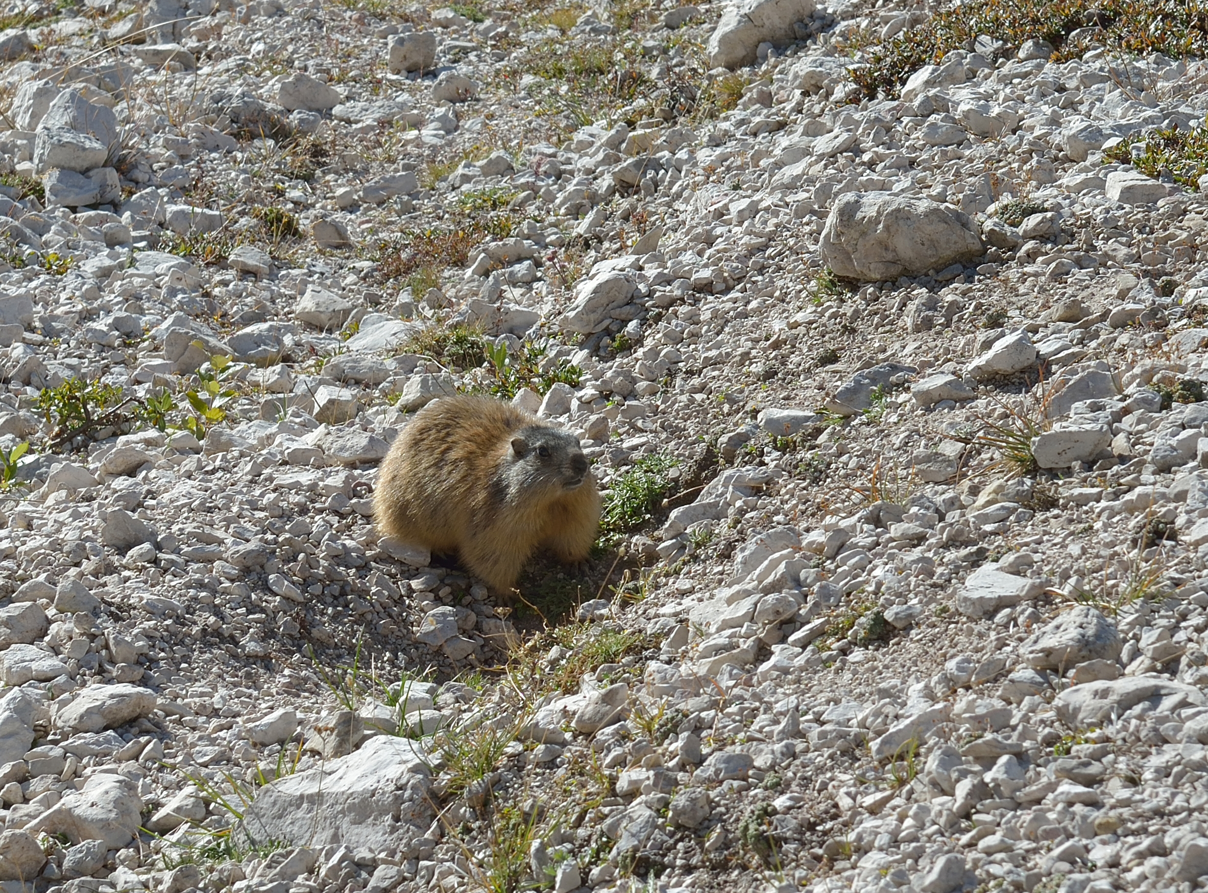 Marmot in Val Gardena